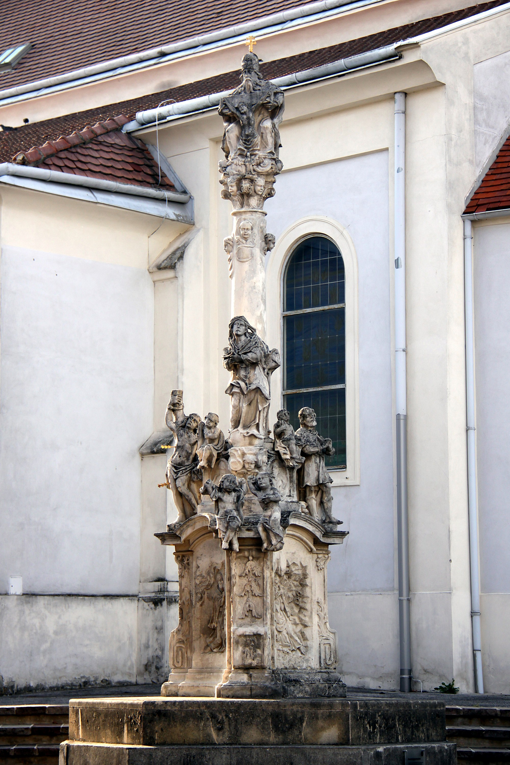 Plague- and Trinity-column near parish church - Deutschkreutz Object location47° 36′ 00.51″ N, 16° 37′ 29.81″ E